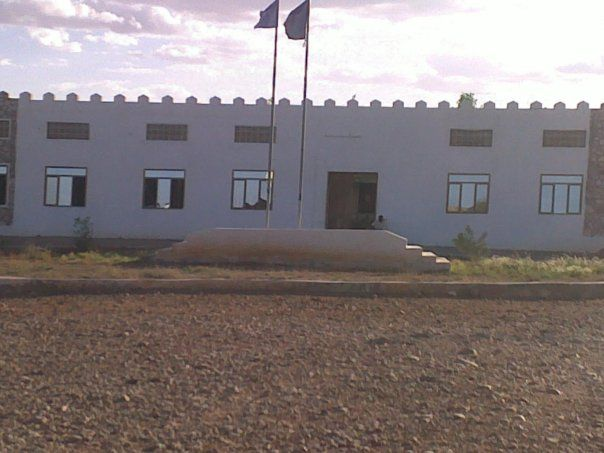 The Somali Police Academy of Armo in Armo District, Puntland, Somalia.